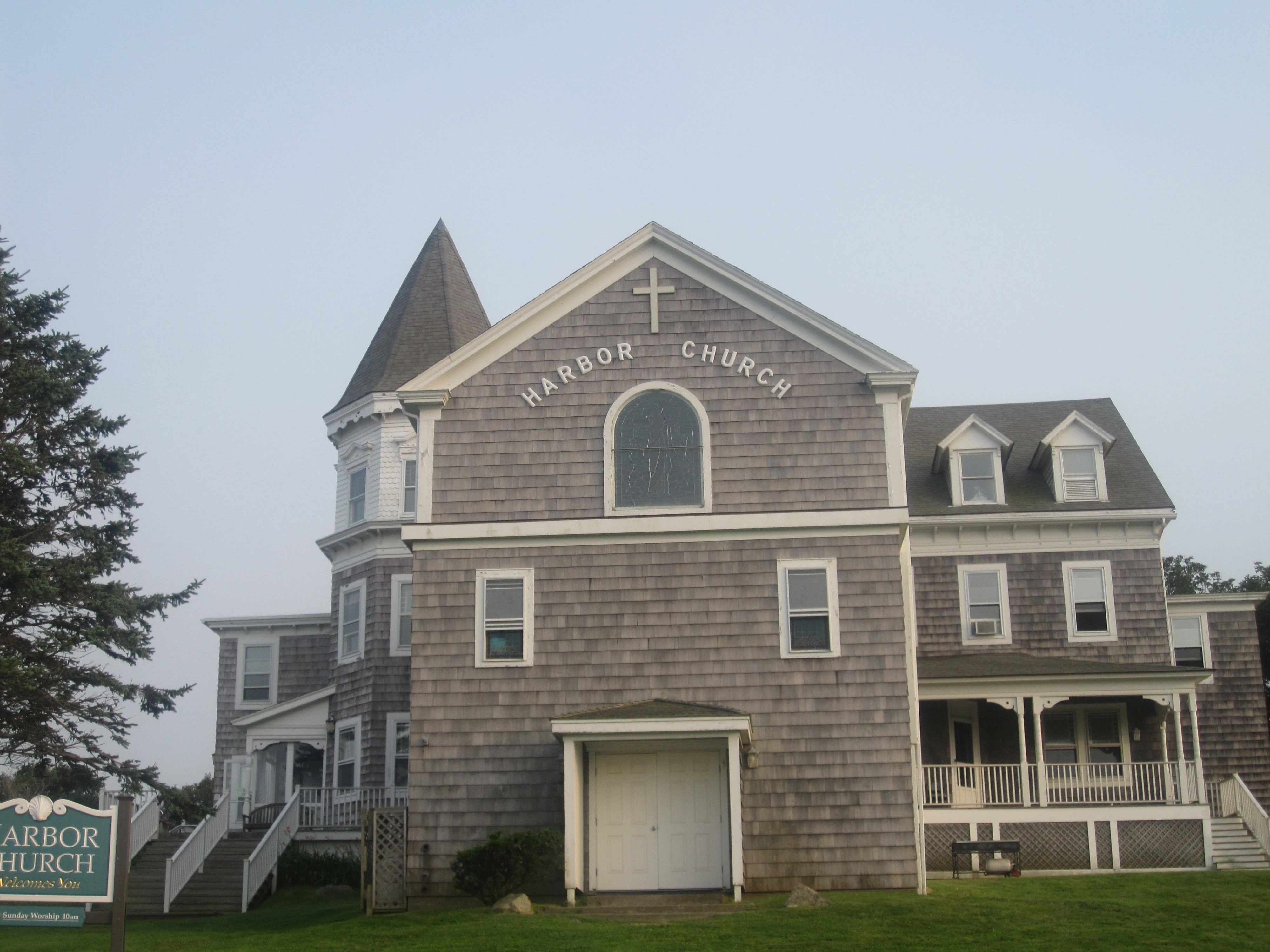 Harbor Church — in New Shoreham, on Block Island, Rhode Island.